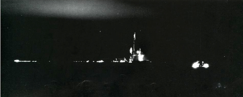 Fires range on the flight deck of the U.S. Navy escort carrier USS Lunga Point (CVE-94) off Iwo Jima, on 21 February 1945. The ship was attacked by four aircraft. All were shot down, but the last slithered over the flight deck and crashed with the right wing into the after part of the island, shearing off the wing before falling into the sea. The resulting fires from burning gasoline were quickly extinguished.